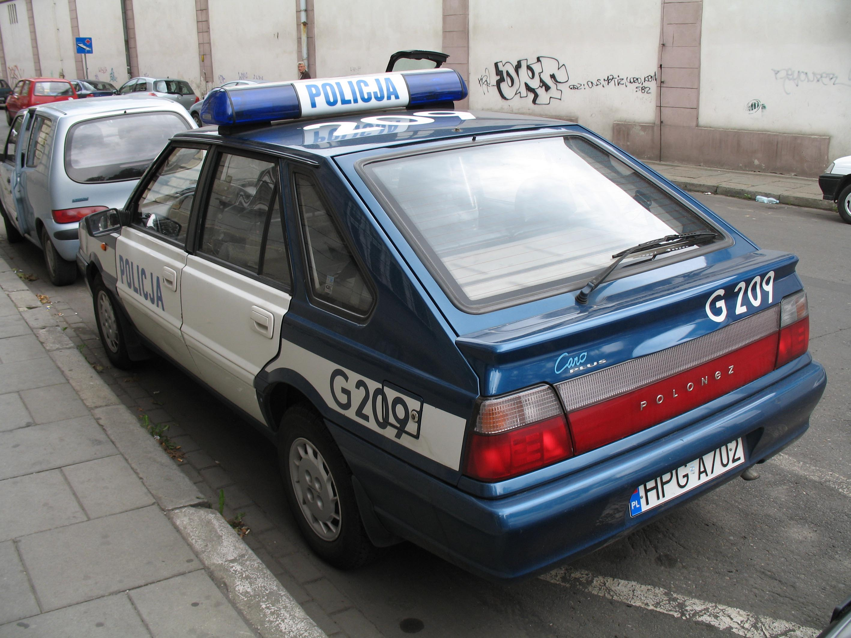 Daewoo-FSO Polonez Caro Plus (back) police car in Kraków, Poland.